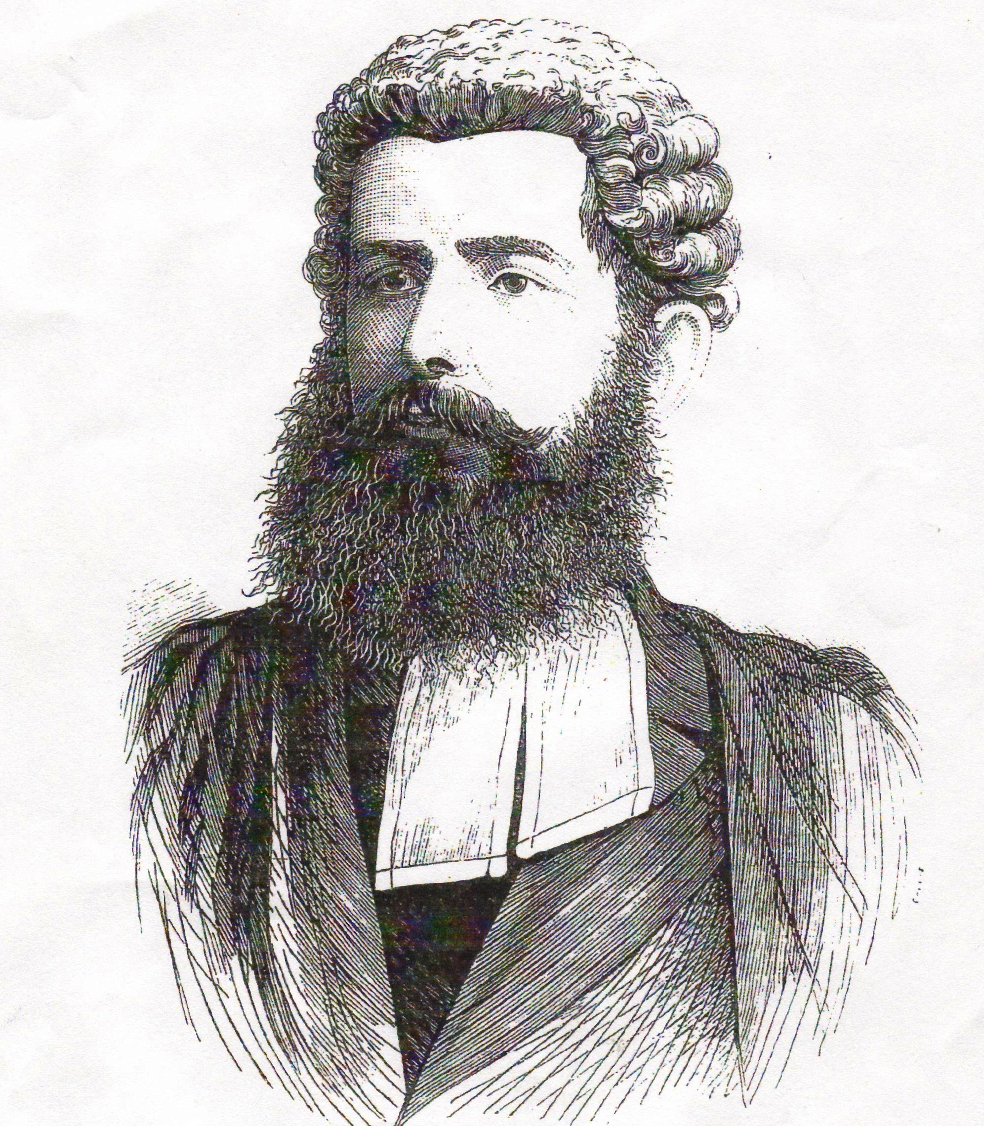 George Harding was a judge and second owner of St Johns Wood House from 1868 who in turn extended the residence in 1877 that Somerset built.